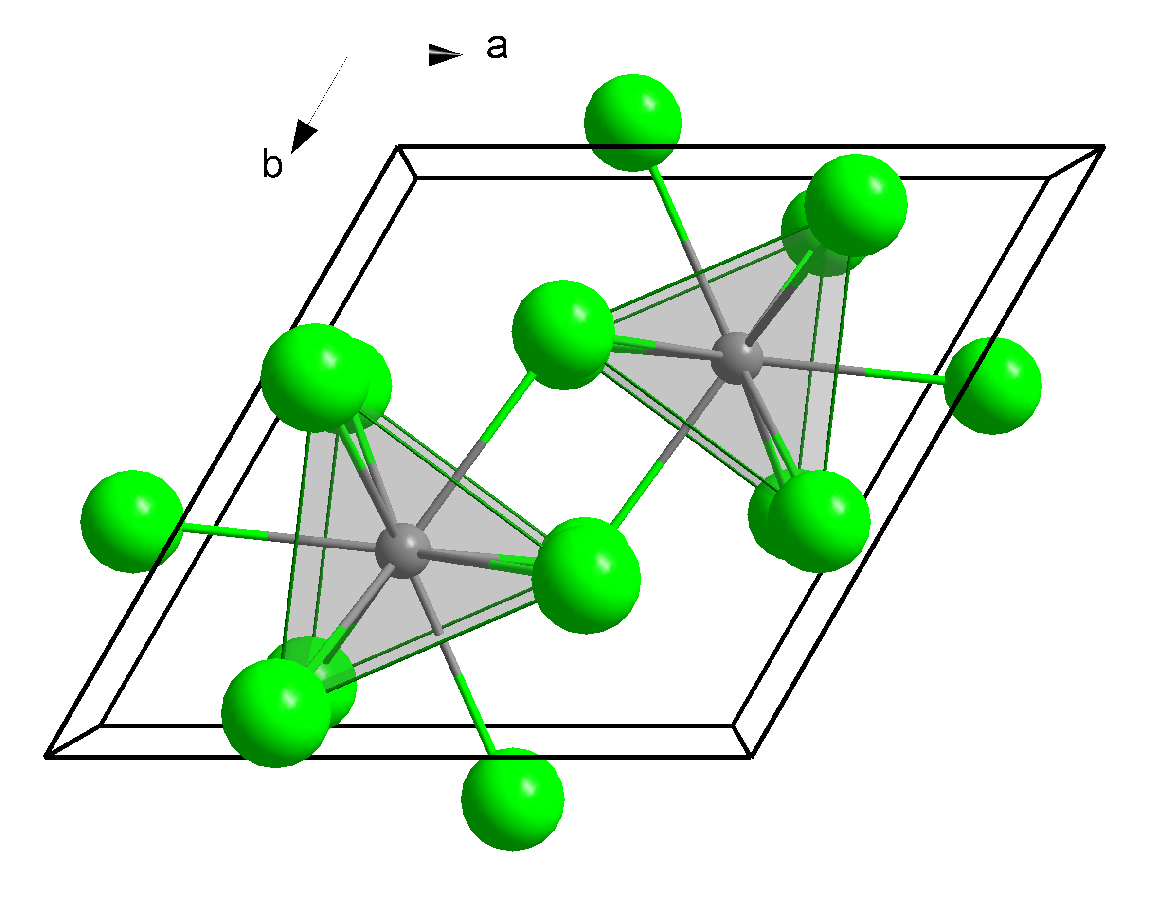 Crystal structure of UCl3-type